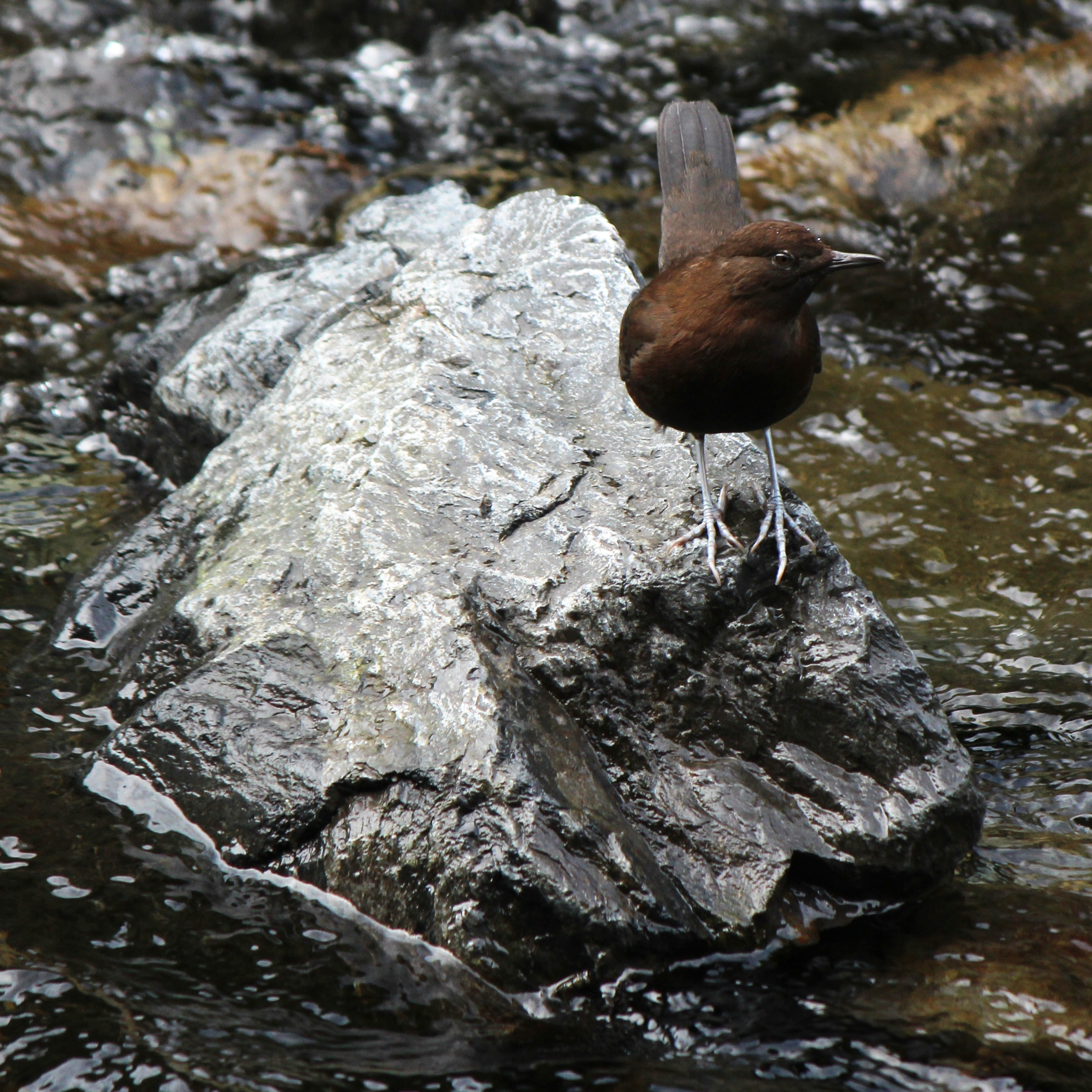 Brown Dipper (Cinclus pallasii pallasii Temminck, 1820 ), in Mie prefecture, Japan.